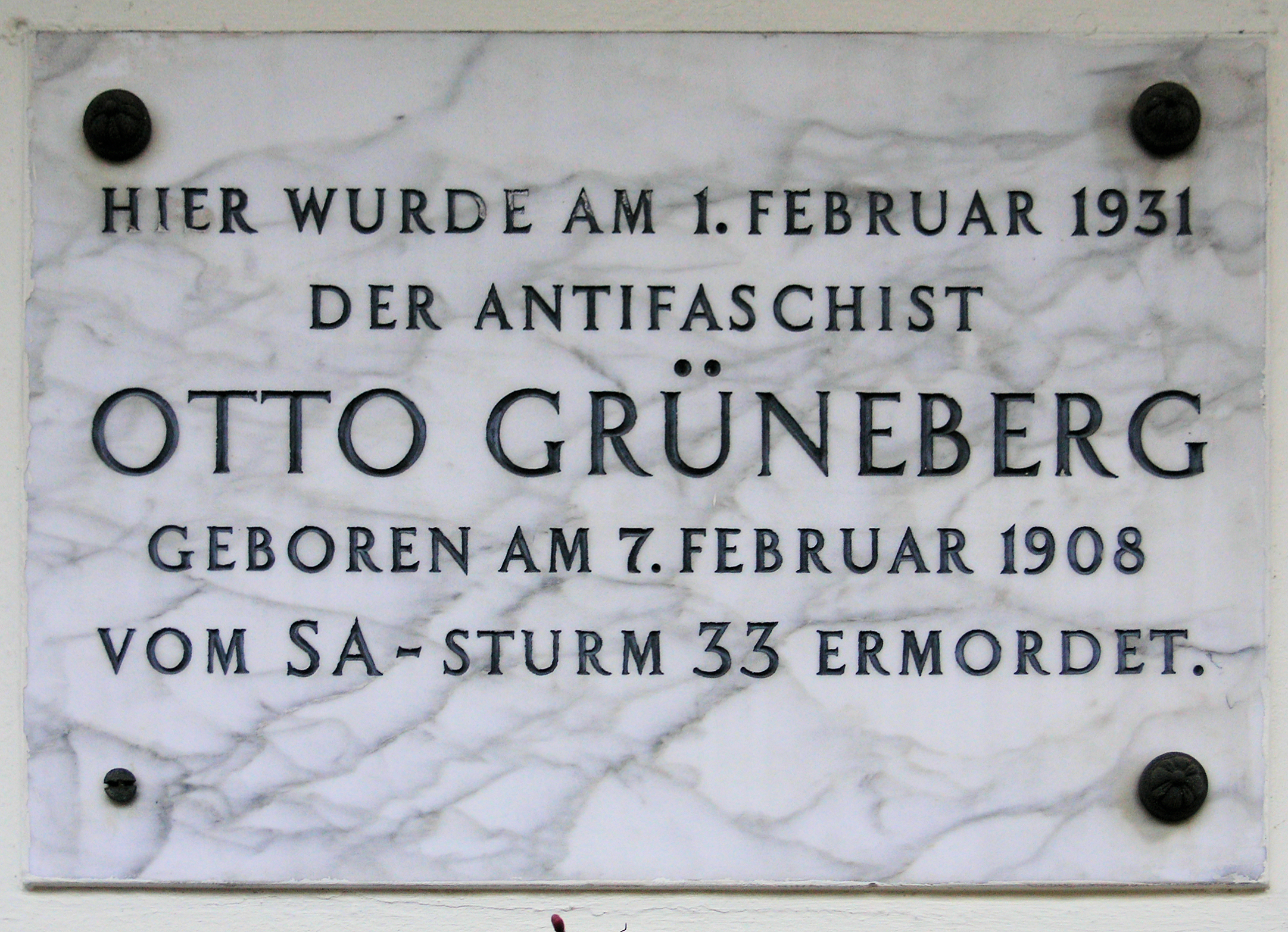 Memorial plaque, Otto Grüneberg, Schloßstraße 22, Berlin-Charlottenburg, Germany